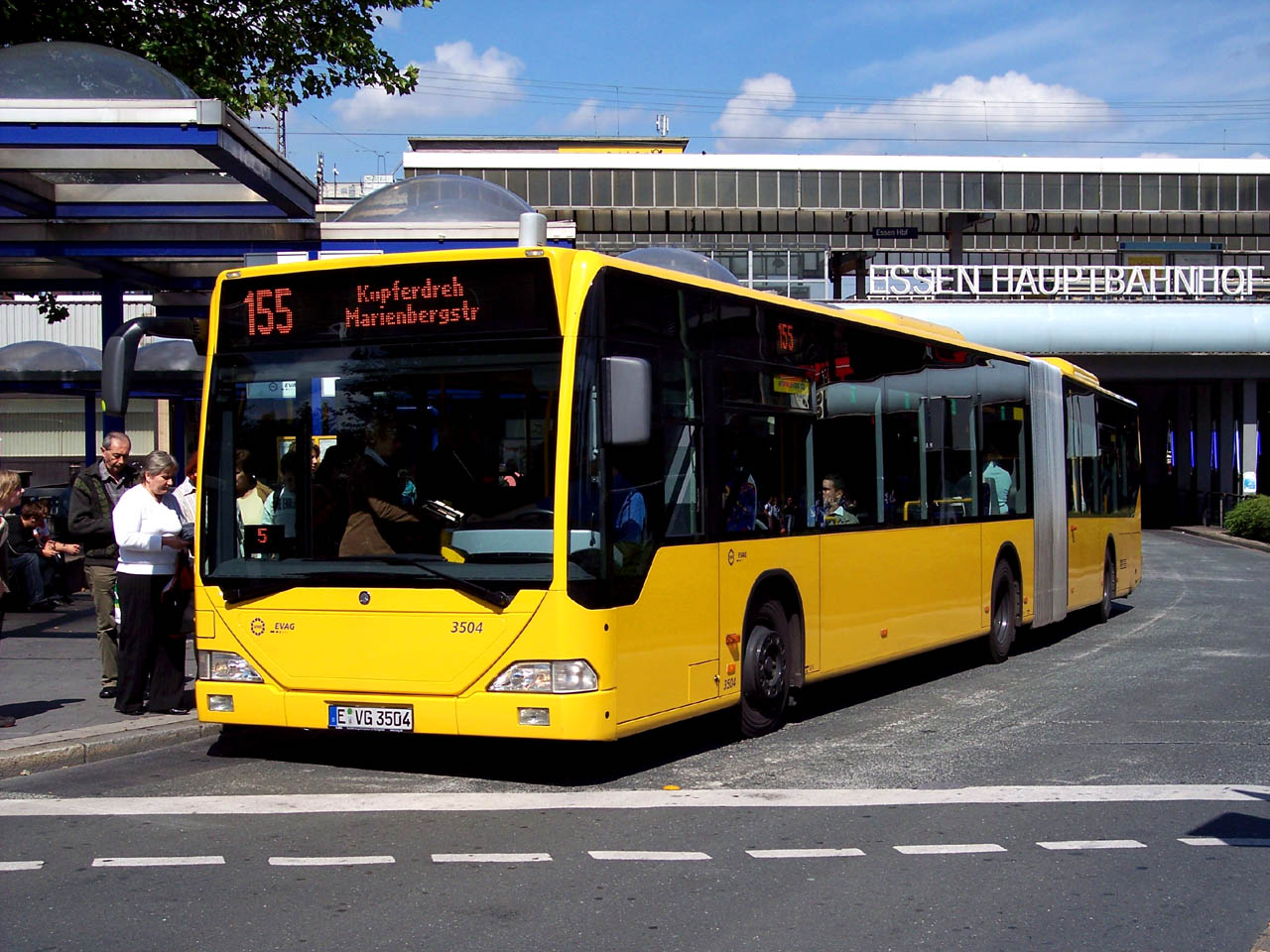 Mercedes-Benz Citaro G of Essener Verkehrs-AG, Essen, Germany on a bus route at the town's main railway station.